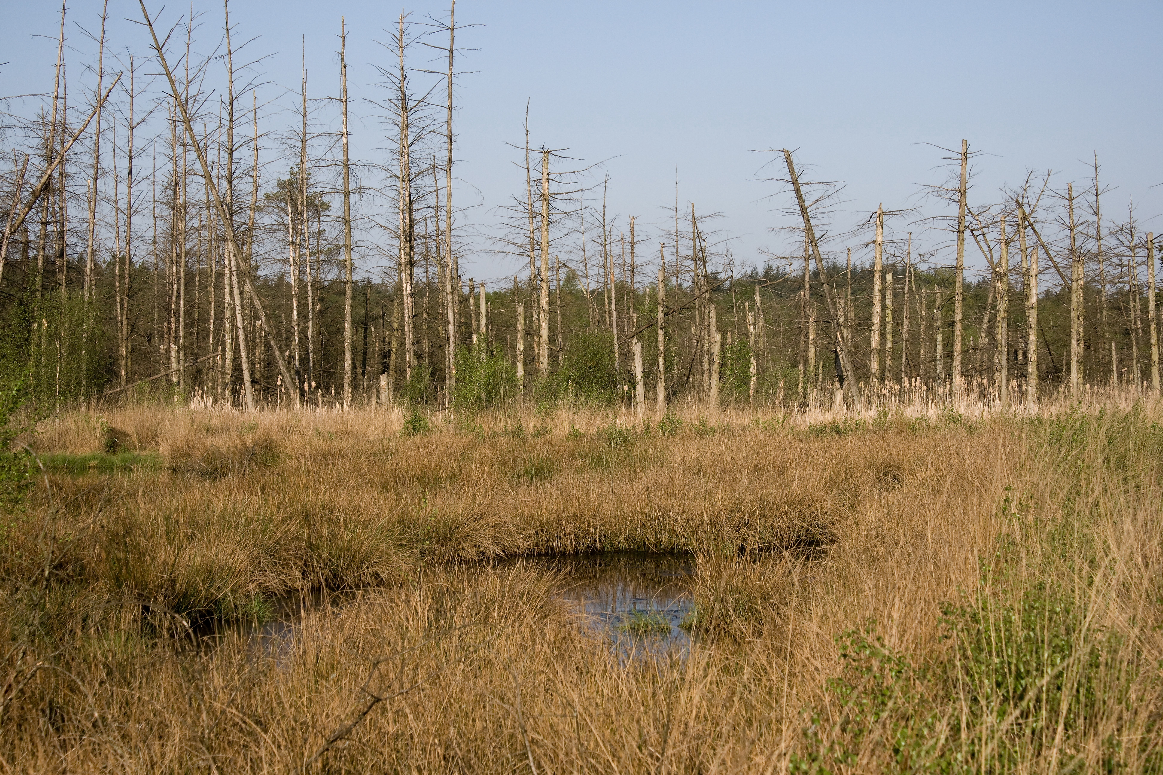 Bog pond with dense stands of sedges in the Ahlenmoor, a peatland in northern Lower Saxony, Germany. Habitat of the Northern Damselfly (Coenagrion hastulatum).